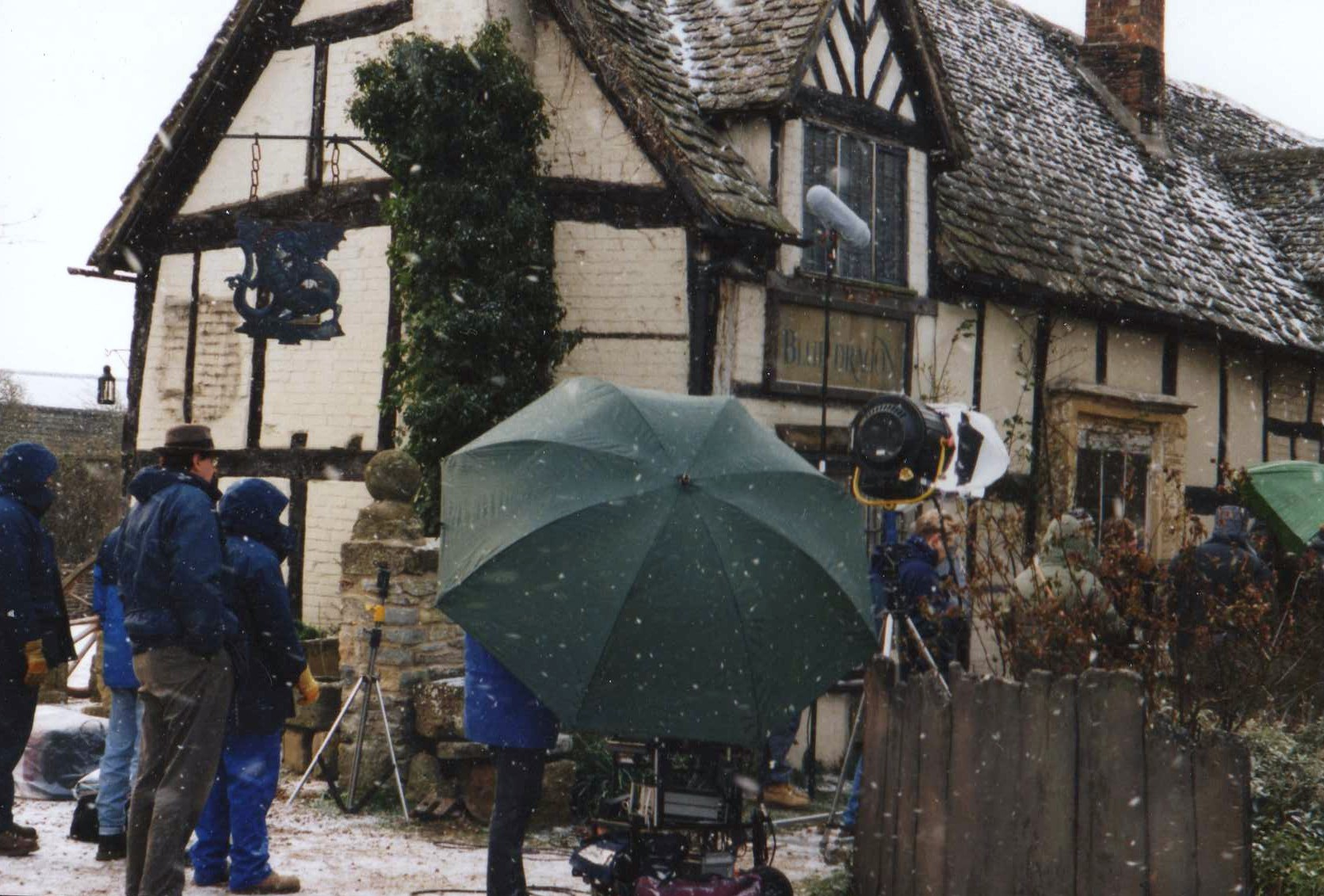 I took this picture myself.